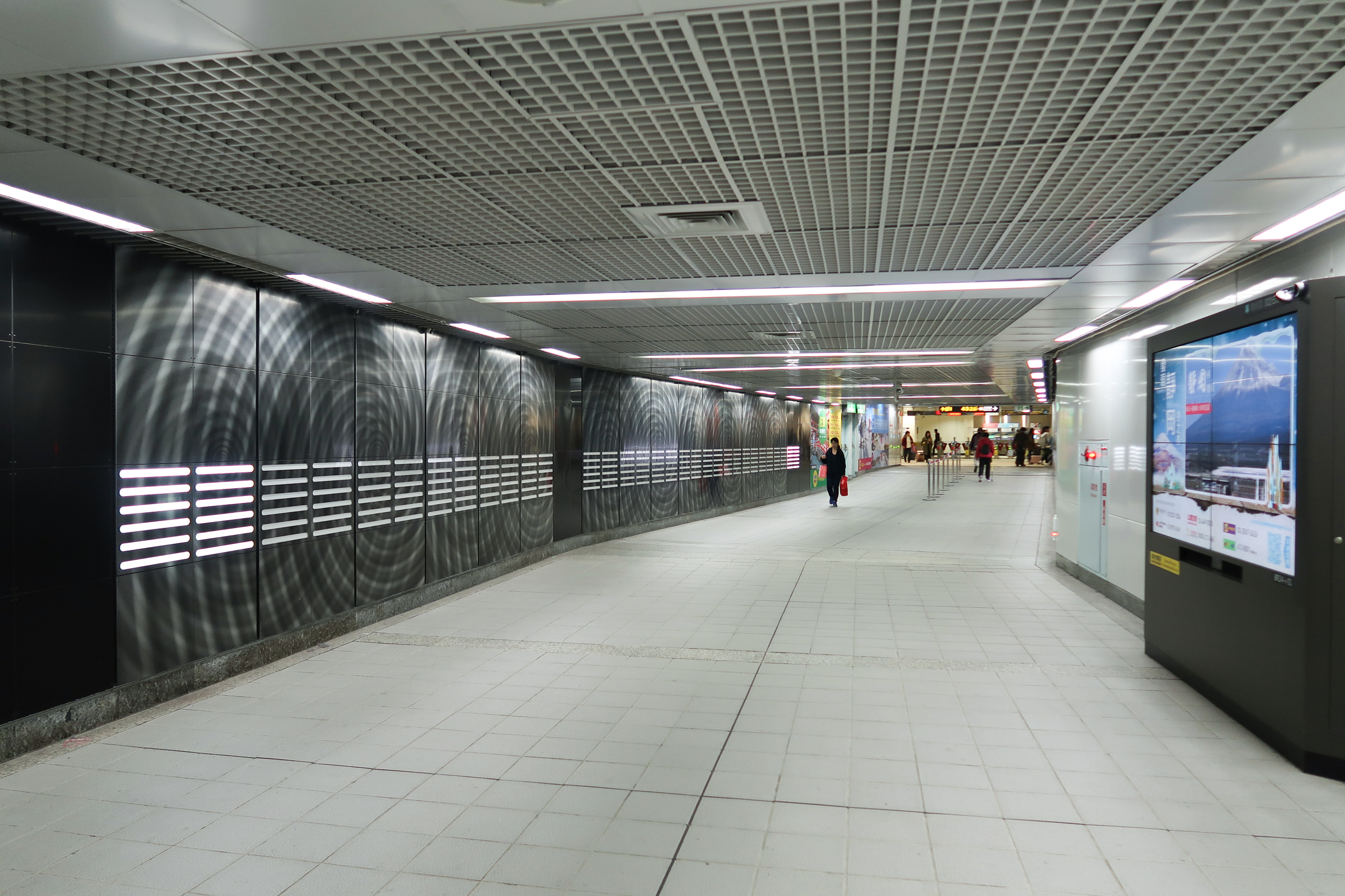 Nangang Exhibition Center Station Access